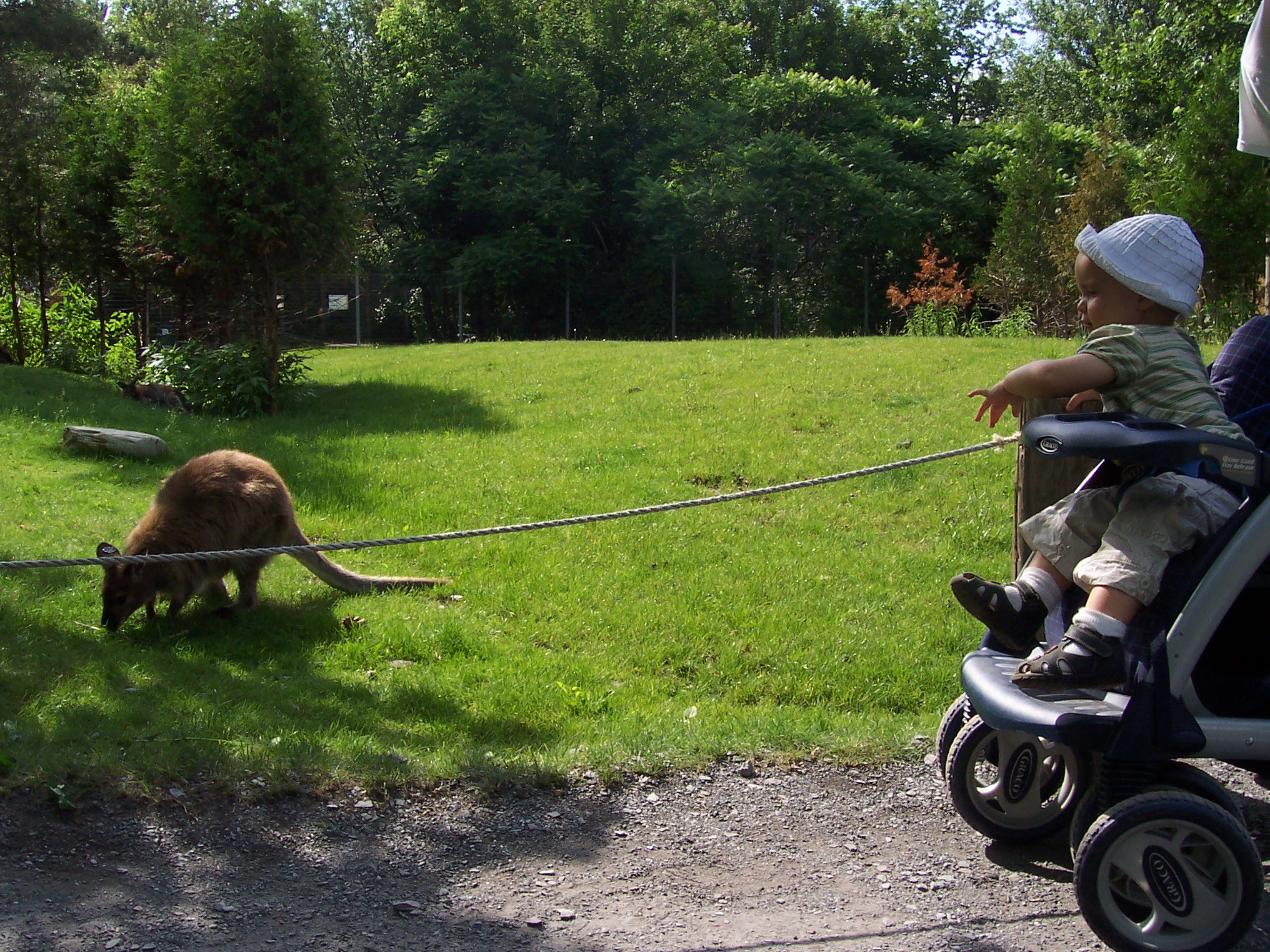 Zoo de Granby (Québec, Canada): Rencontre avec un wallaby de Bennett; Granby Zoo (Quebec, Canada): Encounter with a Bennett Wallaby